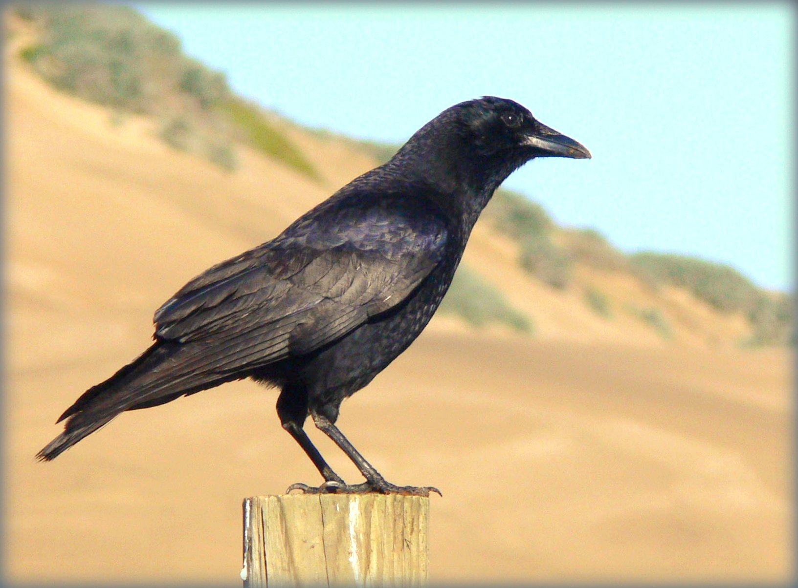 Corvus brachyrhynchos Crow On A Stick . . . Near Shark Inlet, Los Osos, CA